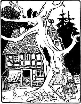 Illustration by Otto Ubbelohde to the fairy tale Hansel and Gretel